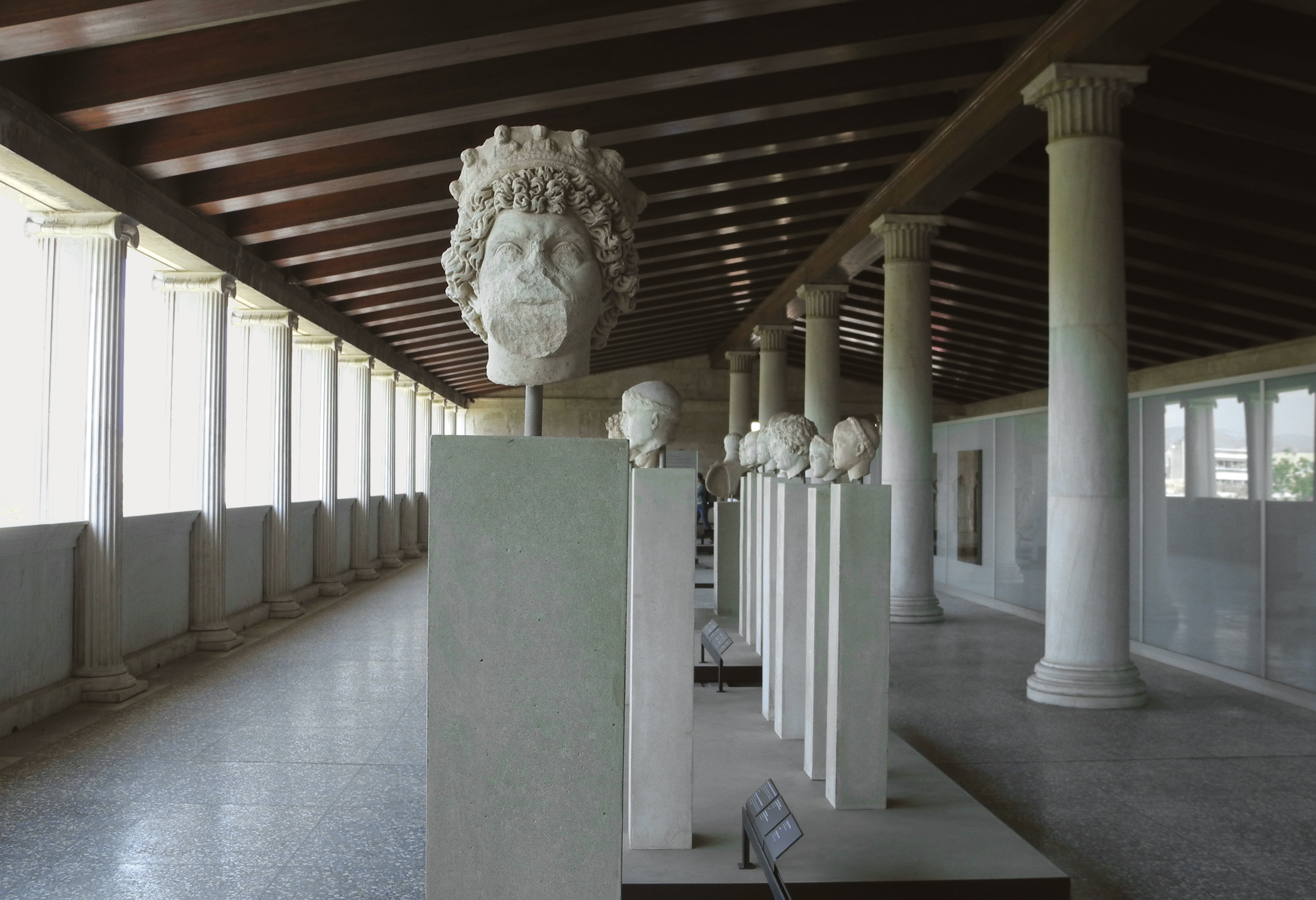 Gallery of the Stoa of Attalus. Athens, Attica, Greece